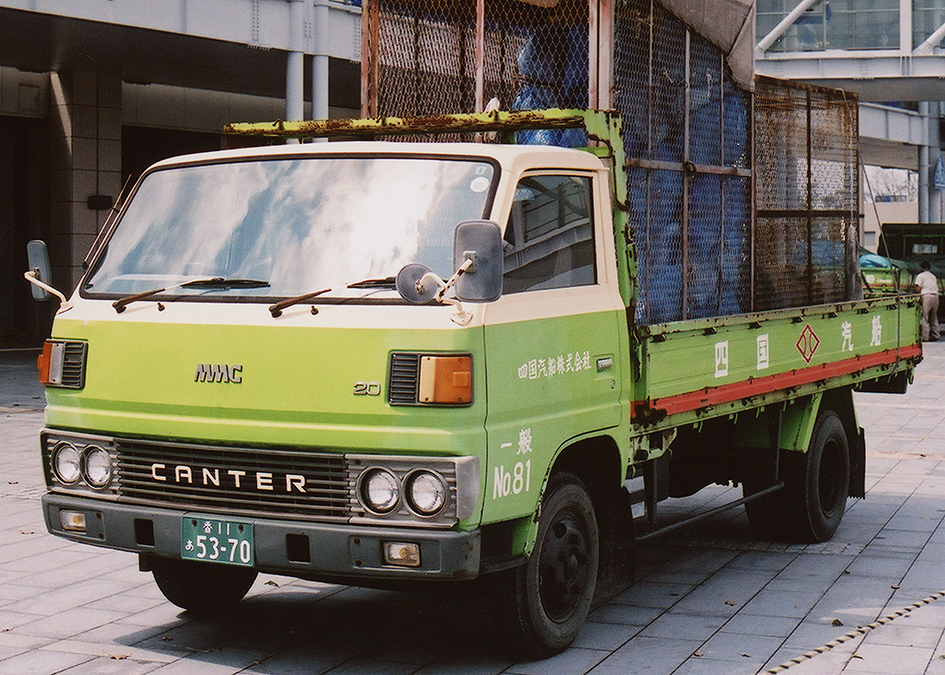 4th generation Fuso Canter 20